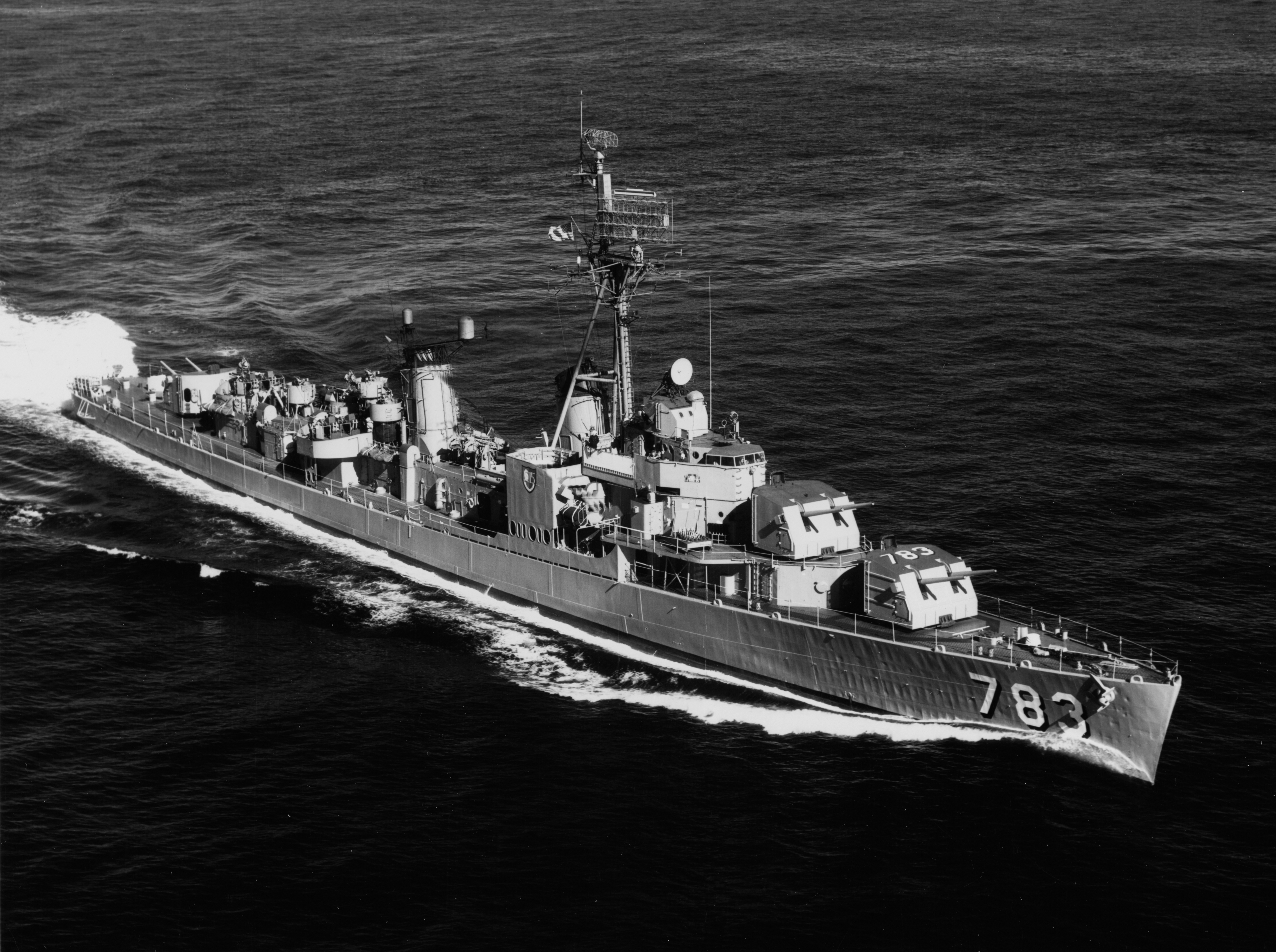 The U.S. Navy destroyer USS Gurke (DD-783) underway in February 1963. Gurke underwent the Fleet Rehabilitation and Modernization (FRAM I) overhaul at Puget Sound Naval Shipyard, Washington (USA), between 11 July 1963 and 1 May 1964.